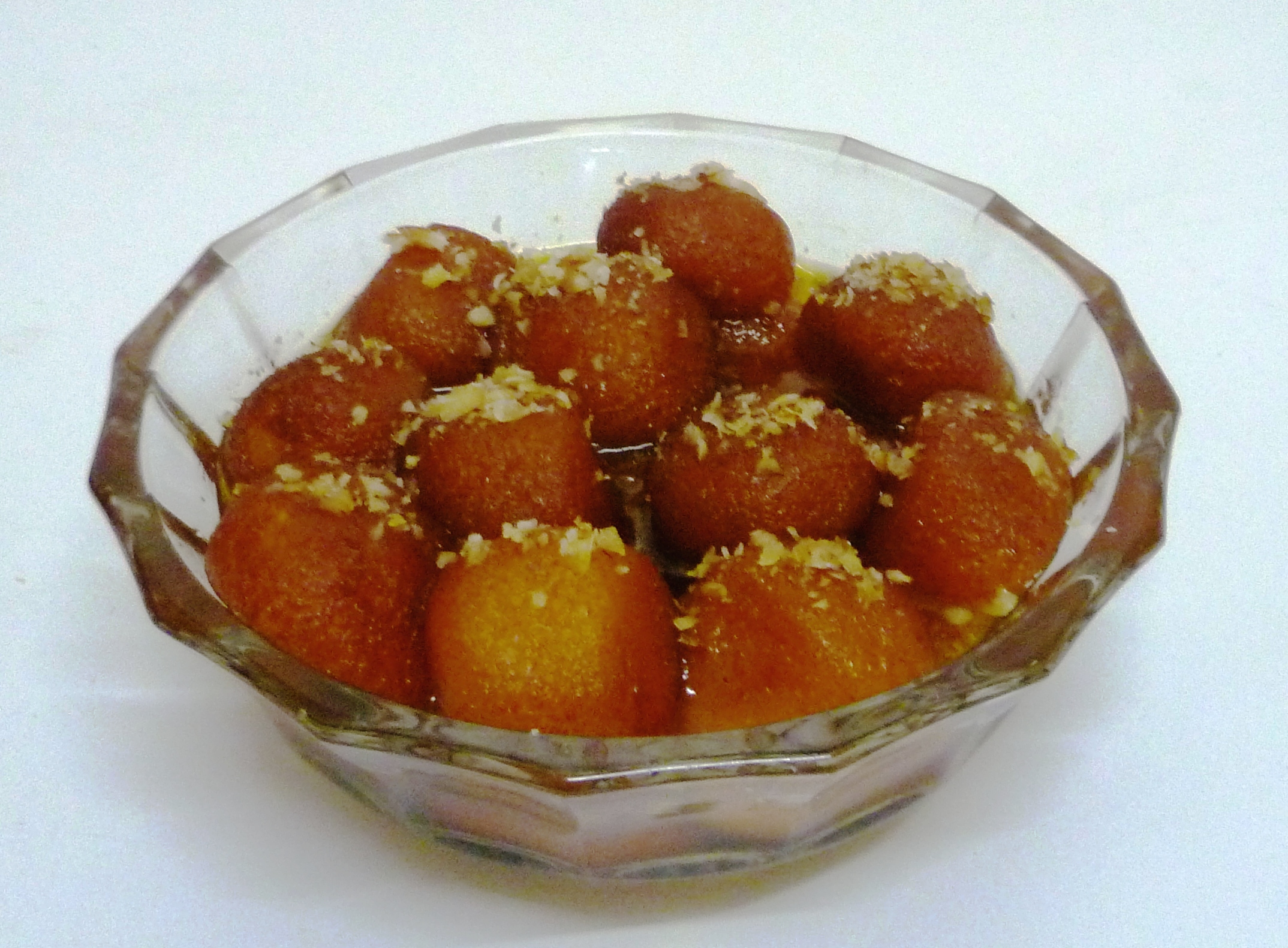 A bowl of Gulab jamun